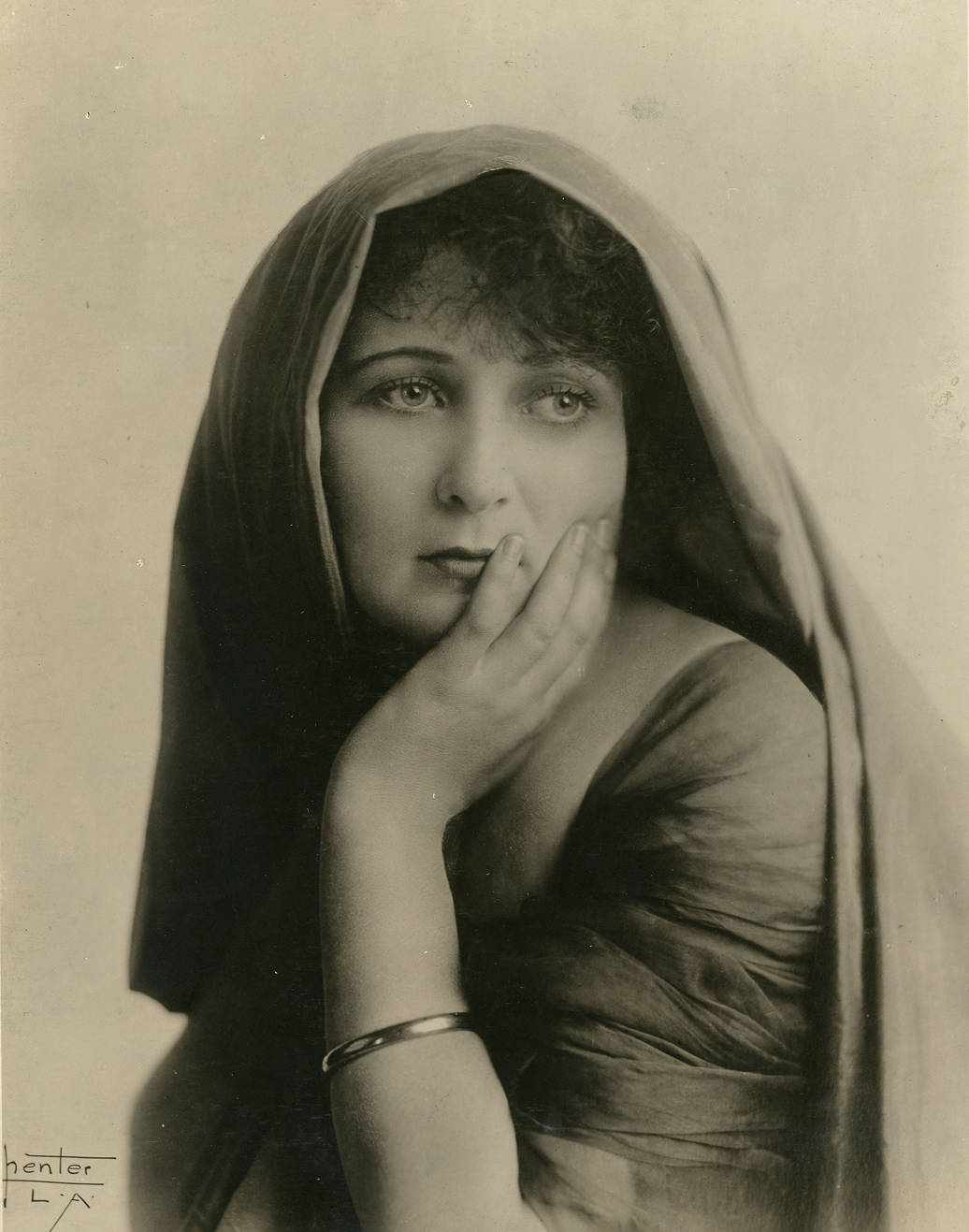 Gretchen Lederer, silent film actress Subjects: actresses